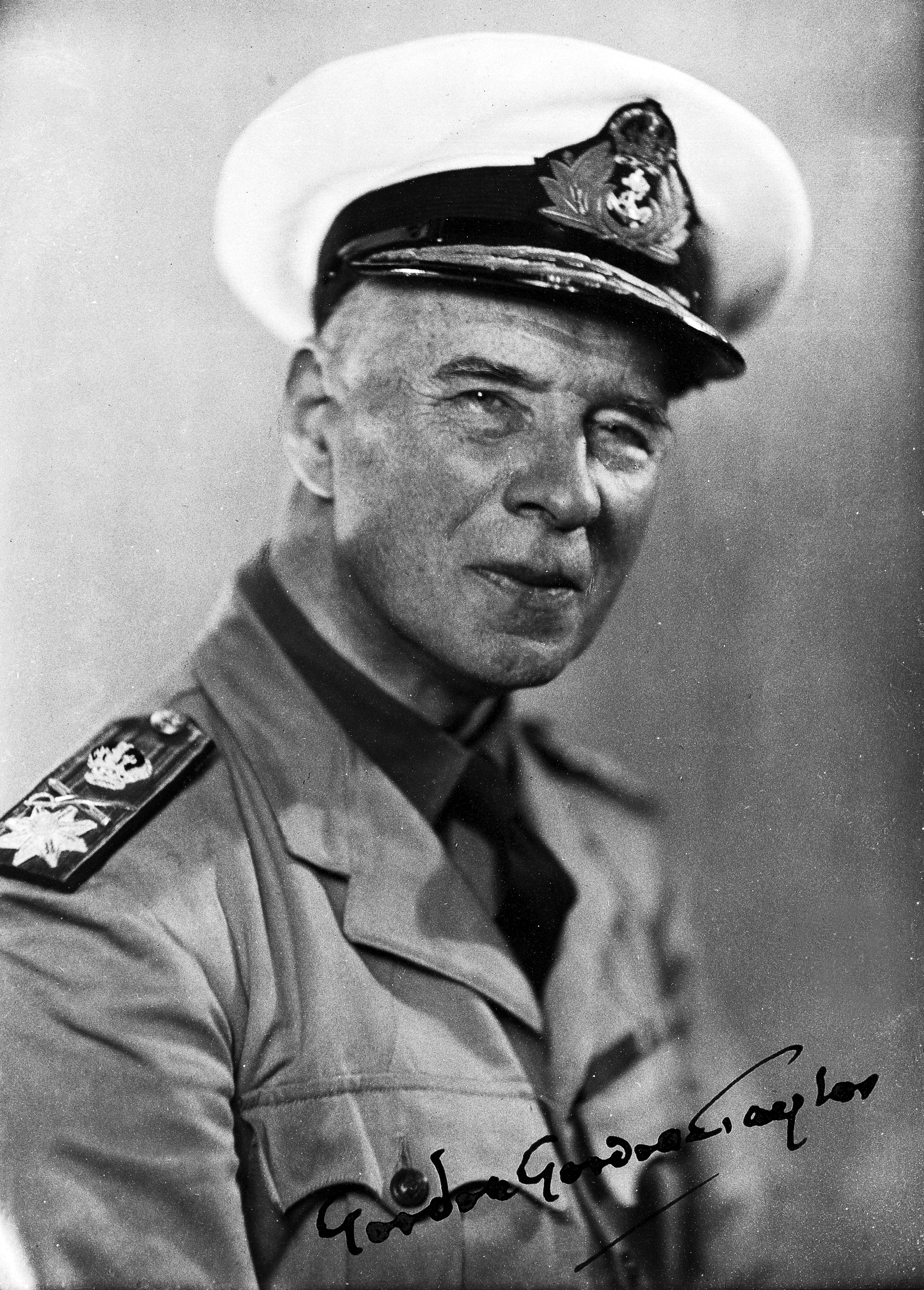 Portrait of G. Gordon-Taylor, in naval uniform Iconographic Collections Keywords: Gordon Gordon-Taylor